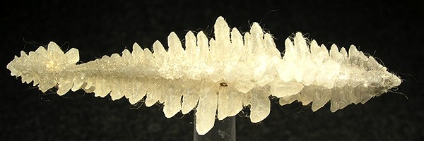 Salammoniac Locality: Tien Shan Mts, Region of Republican Subordination, Tajikistan (Locality at ) Superb example of this strange mineral species, with perfect surreal form and sharp terminations on each end. 6 x 1.9 x 1.2 cm